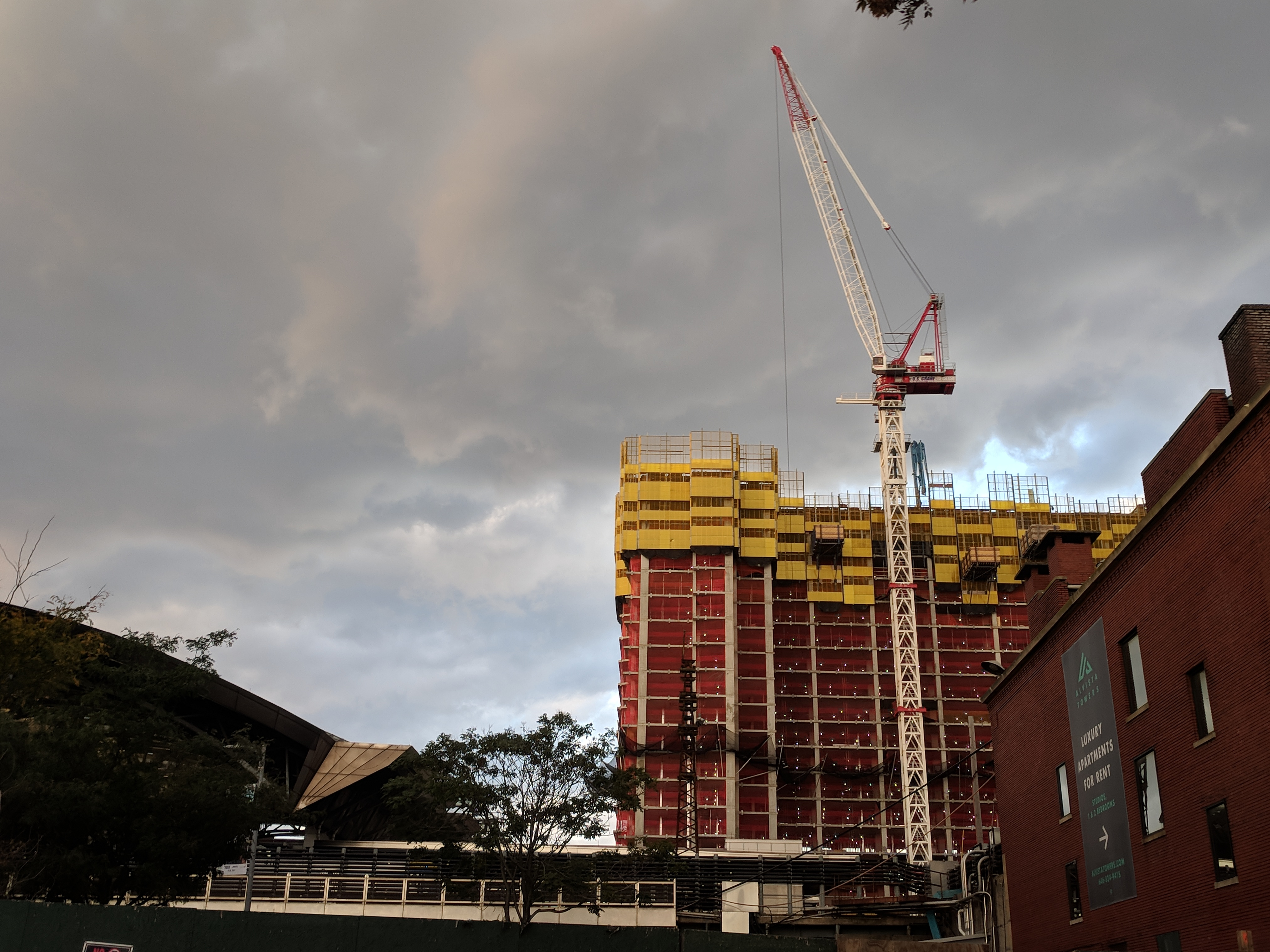 CNY construction near Jamaica station, zoned to 28 stories